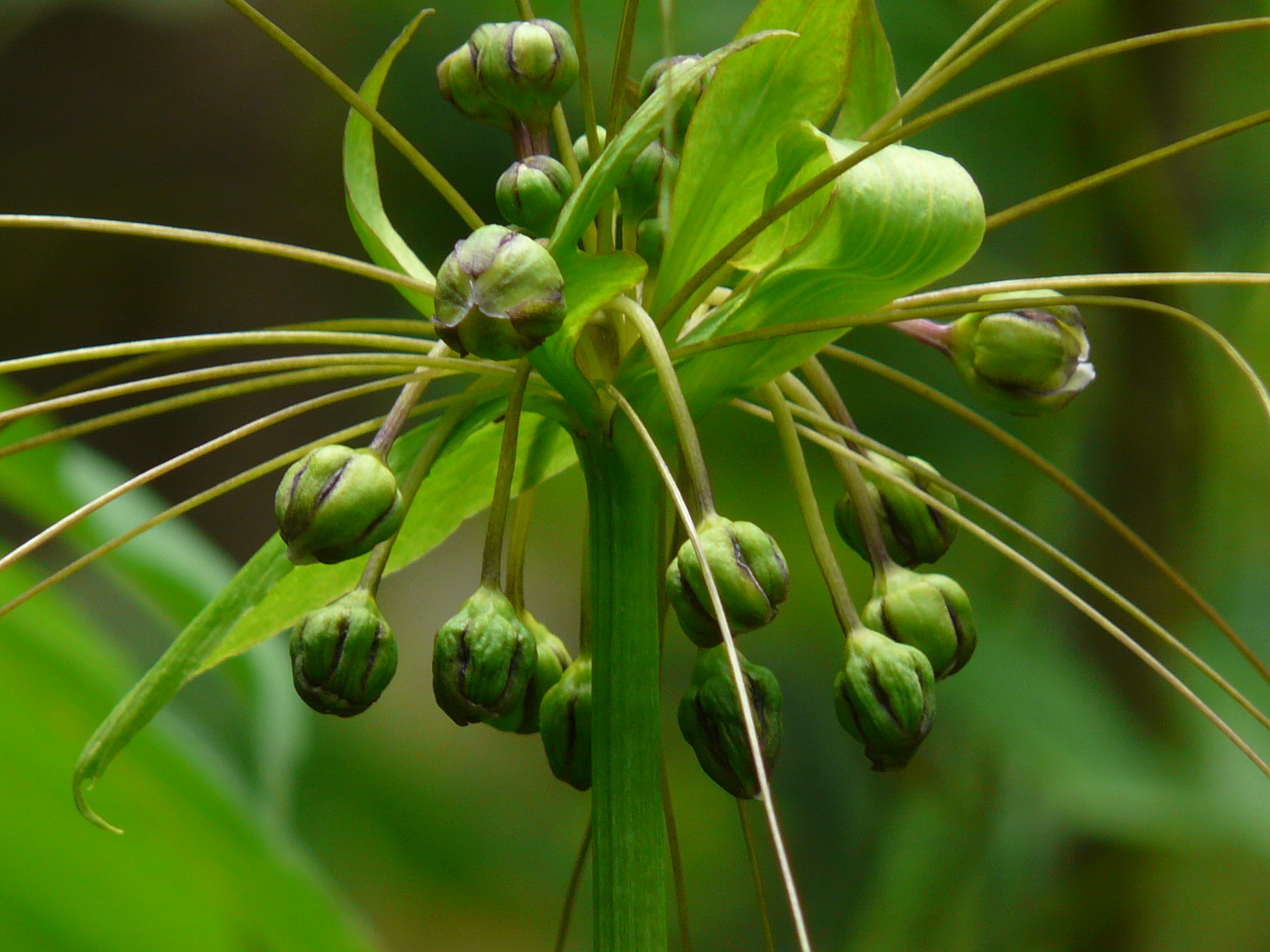 Taccaceae (batflower family) » Tacca leontopetaloides TAK-kah -- from the Malayan name for this plant lee-on-toh-pet-al-OY-deez -- resembles lion's-petals commonly known as: batflower, East Indian arrowroot, Fiji arrowroot, Polynesian arrowroot, Tahiti arrowroot •